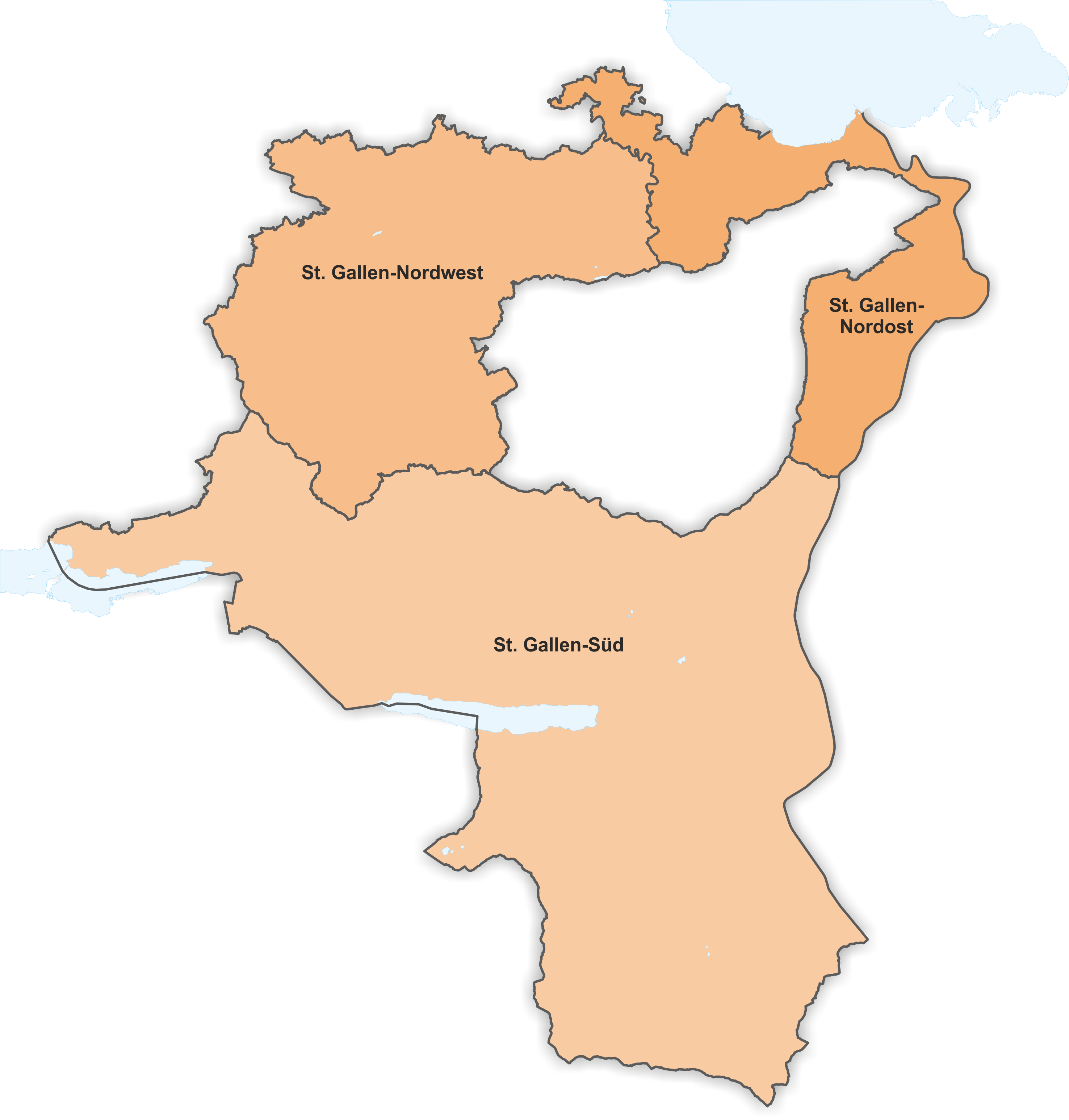 National council constituencies in the canton of St. Gallen from 1881 to 1887